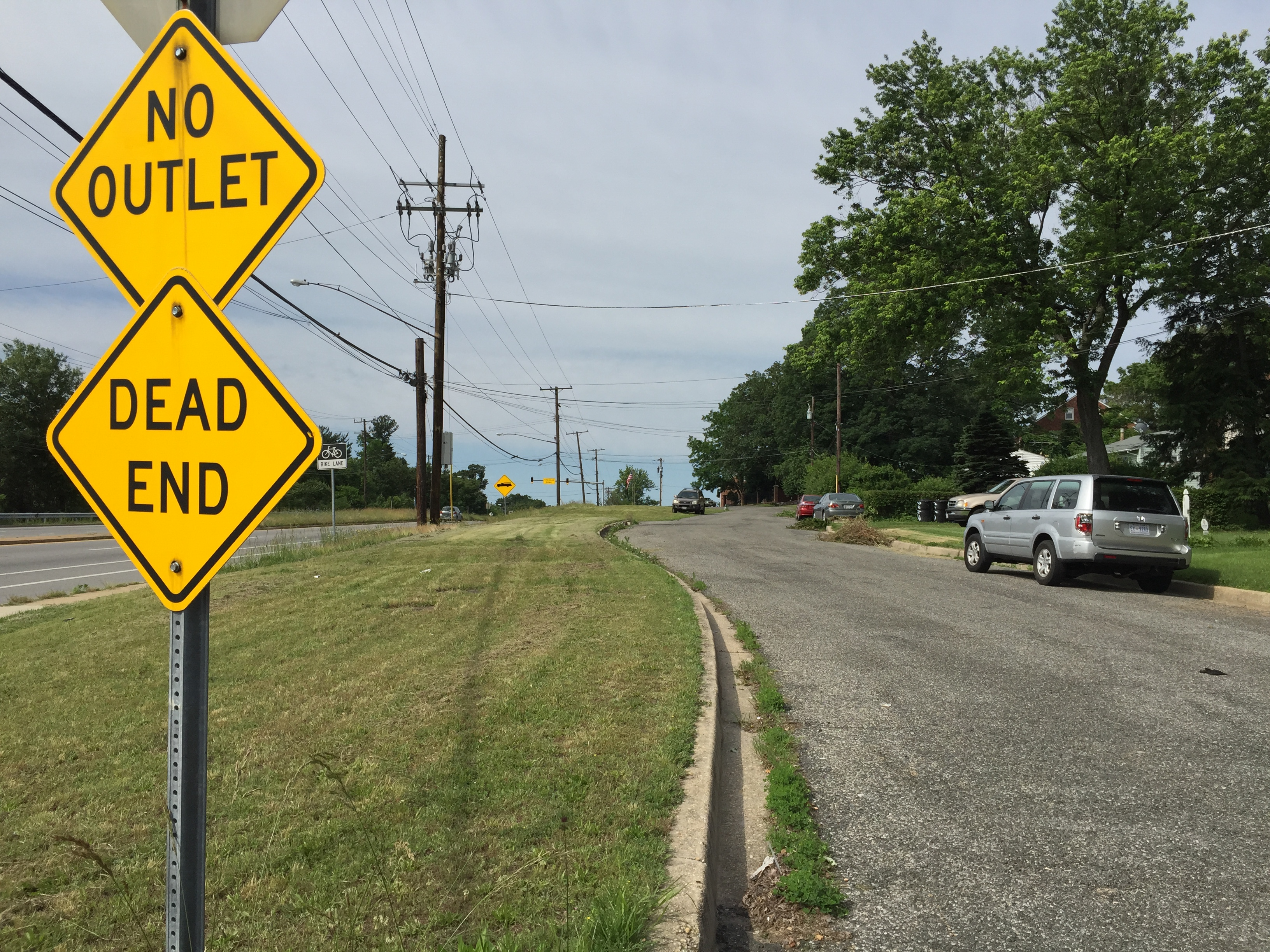 View south along Maryland State Route 964 (Truman Road) at Red Top Road in Chillum, Prince George's County, Maryland